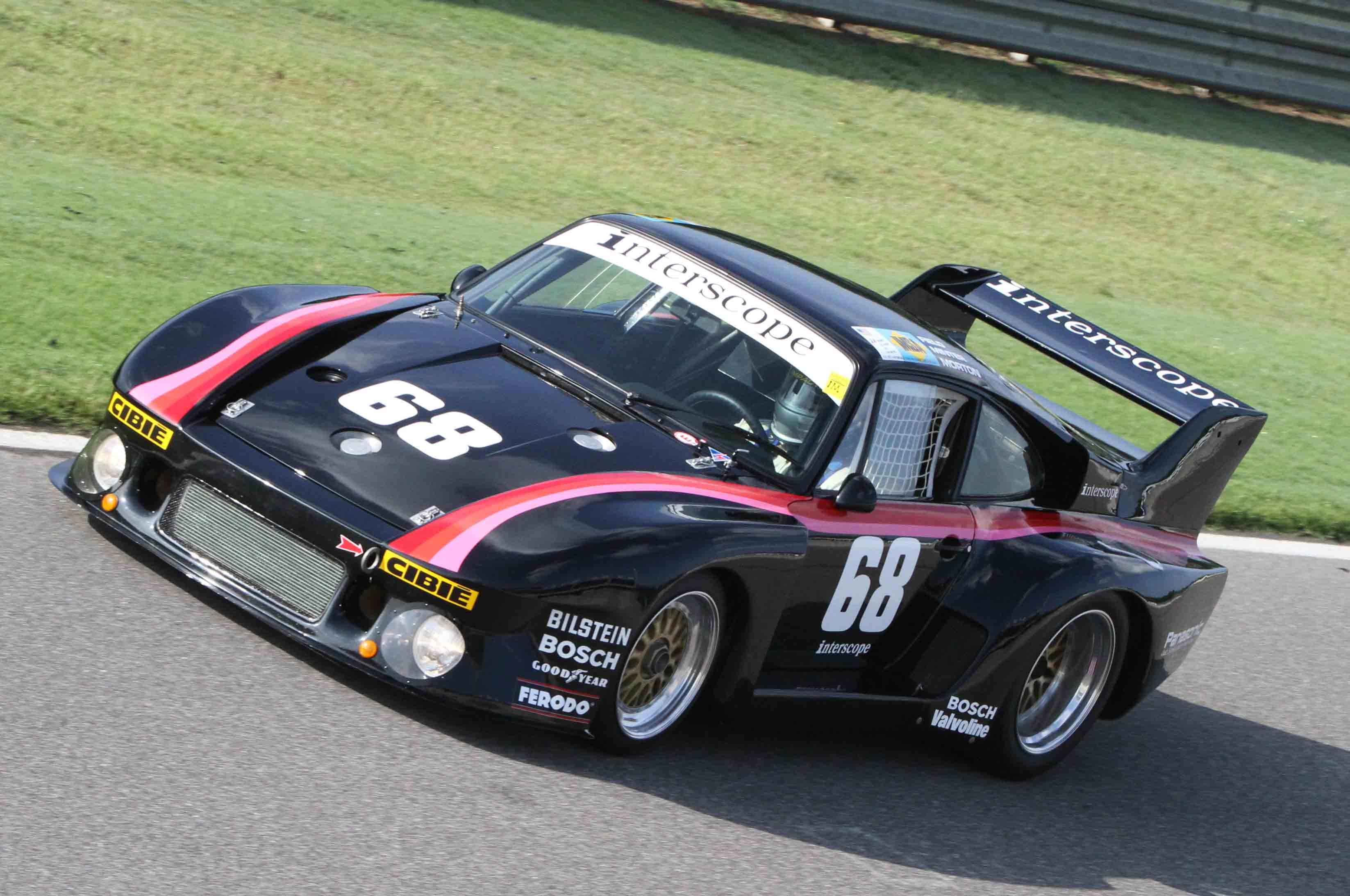 A Porsche 935 at the 2010 Barber Motorsports Park Legends of Motorsport historic racing event.